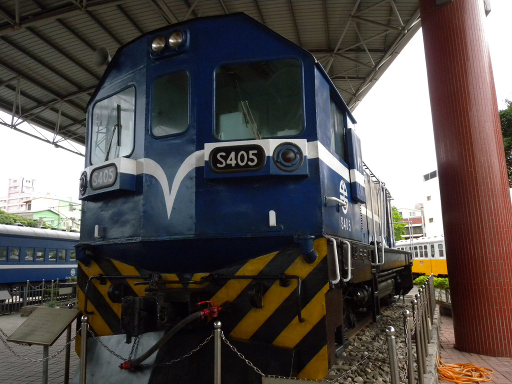 TRA S405 diesel locomotive at Miaoli Railway Museum.